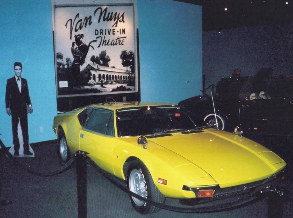 . De Tomaso Pantera once owned by Elvis Presley, on display at the Petersen Automotive Museum, Los Angeles, 2003.